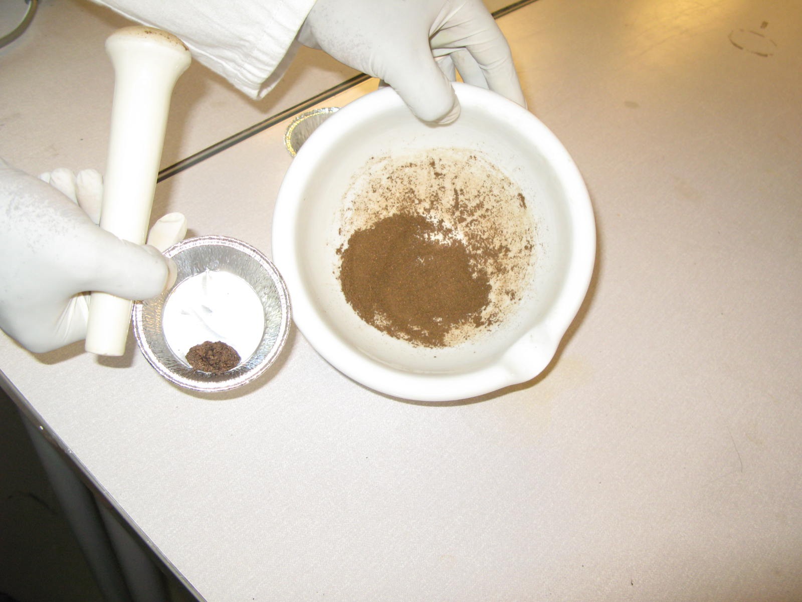 Testing various parameters of faeces (dry solid content, N, P content)